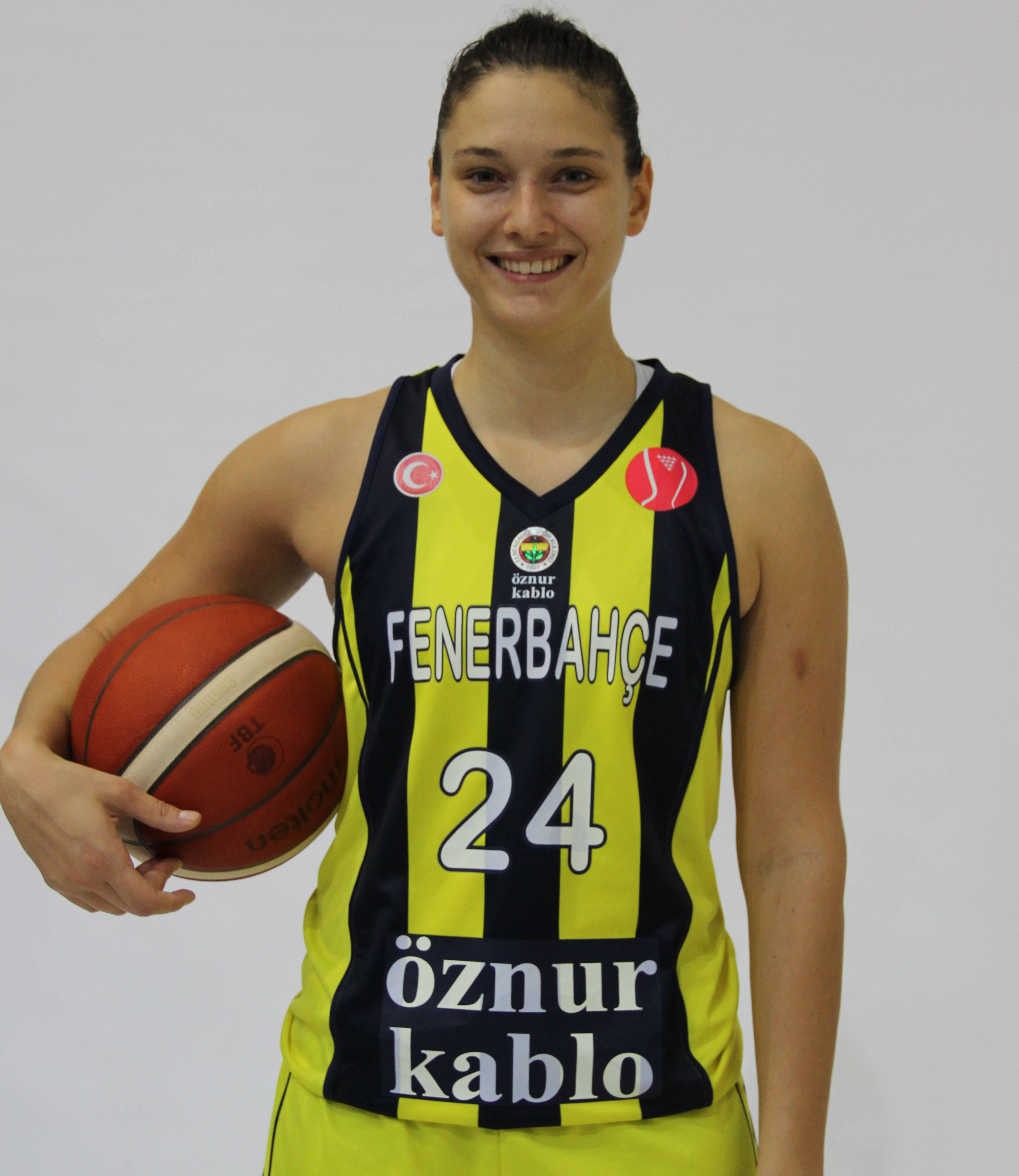 Cecilia Zandalasini 24 Fenerbahçe Women's Basketball 20191031